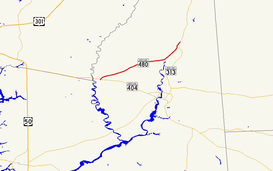 Map of Maryland Route 480